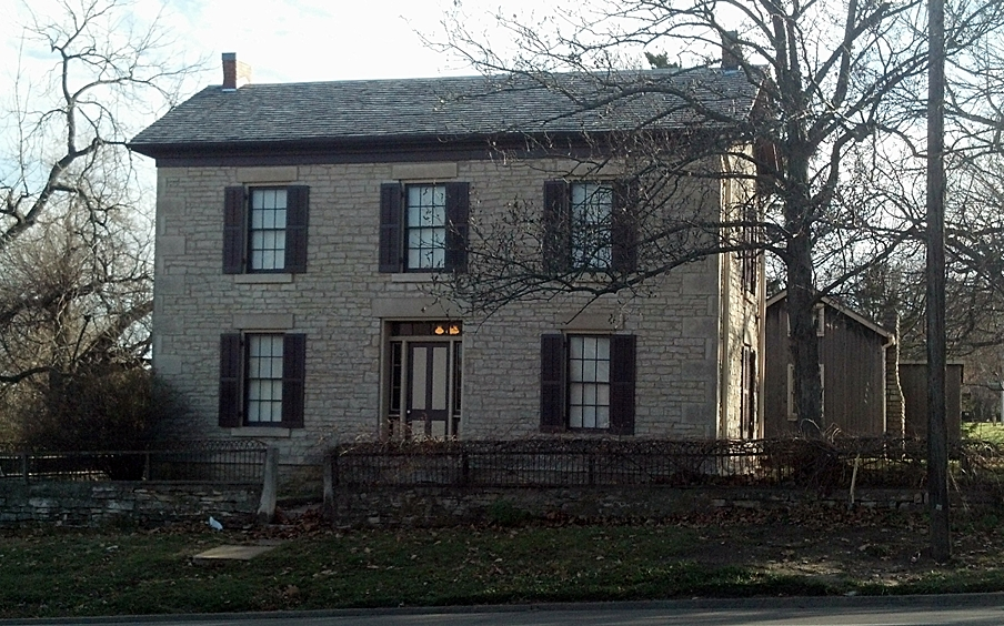 Goodnow House, 2301 Claflin Road, Manhattan. Added to the National Register of Historic Places, February 24, 1971. The house is officially known as the Goodnow House State Historic Site and is maintained by the Kansas State Historical Society.